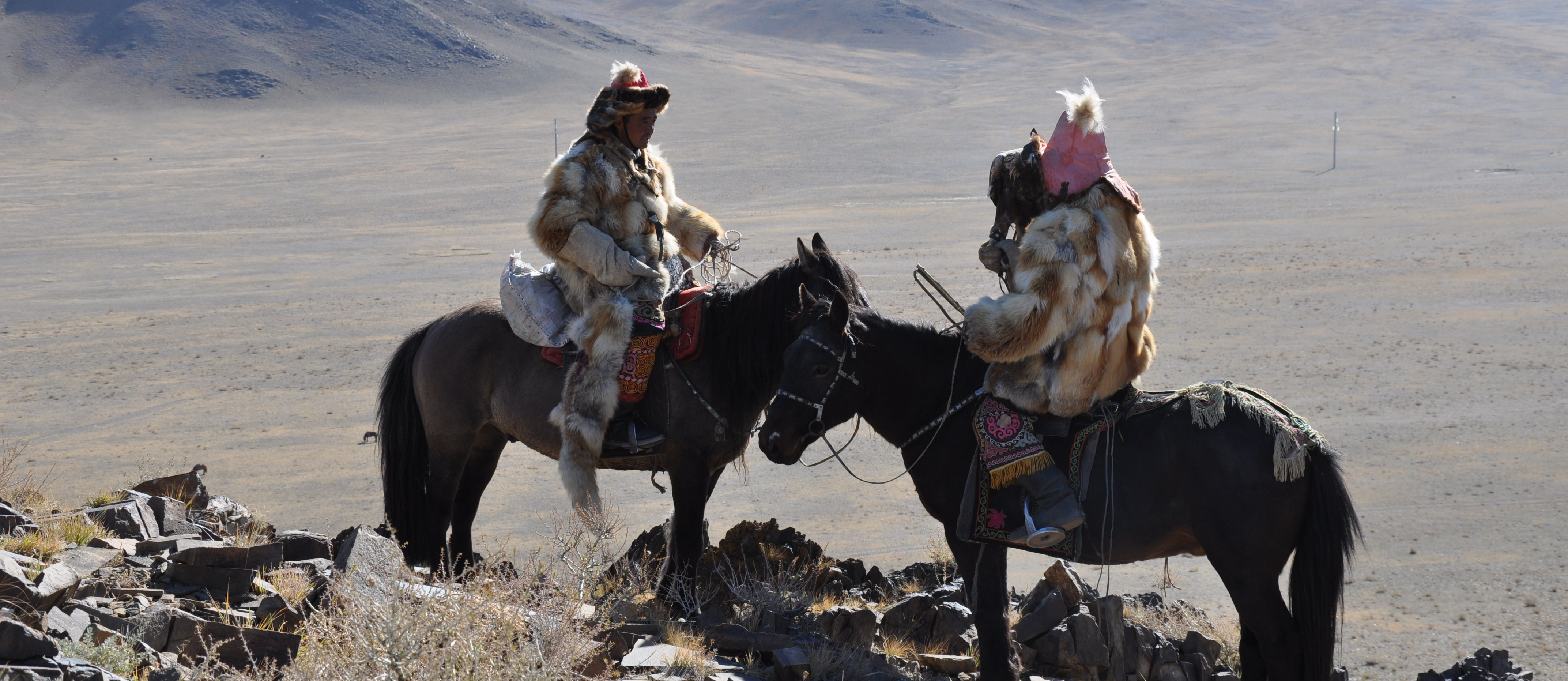 Kazakh eagle hunters in Olgii, Mongolia.